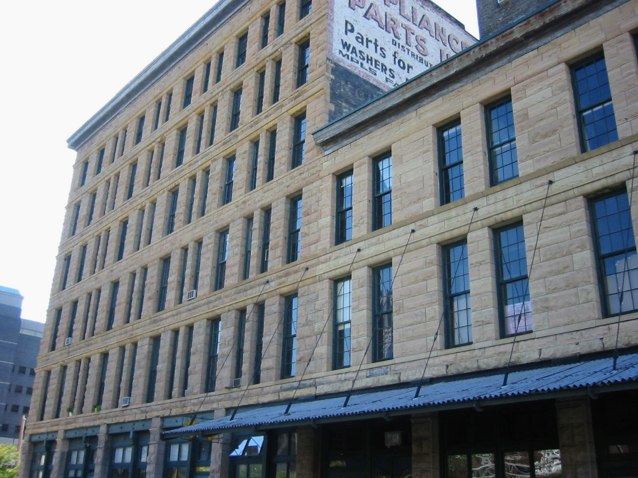 The Minneapolis-Moline-Stoddard building on 3rd Avenue North between Washington Avenue and 3rd Street (near the entrance to Interstate 394) in the Warehouse District of Minneapolis, Minnesota, now the Traffic Zone Center for Visual Art.